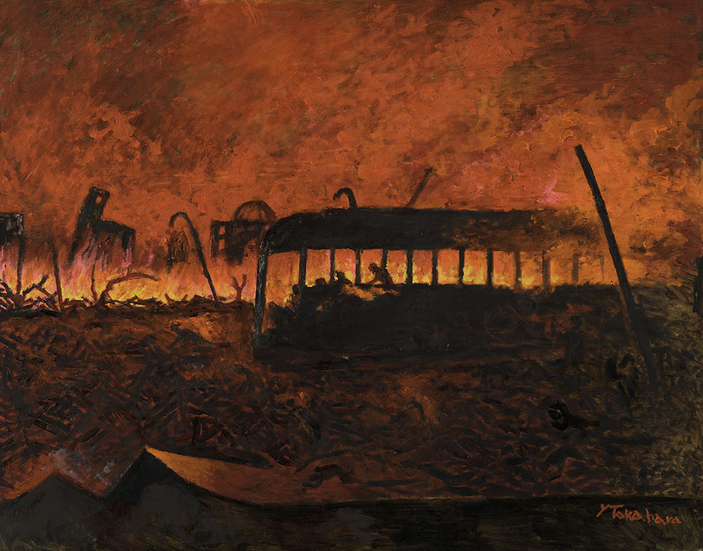 "Firestorm" de Yoshio Takahara